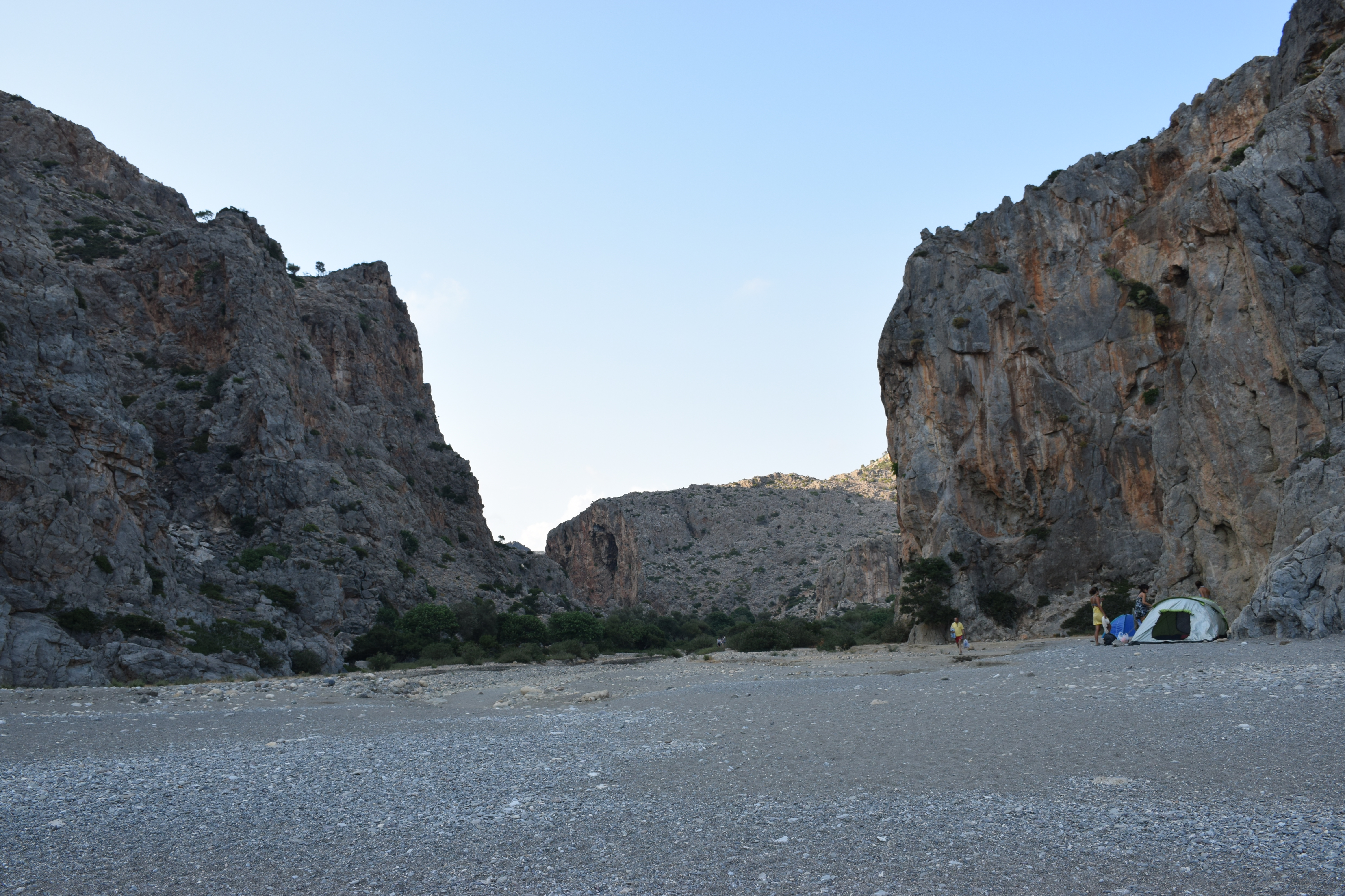 This is a photography of Natura 2000 protected area with ID GR4310004